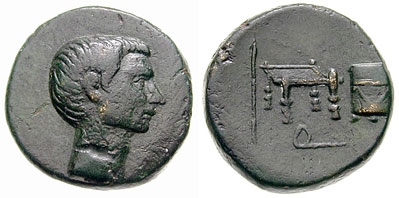 CILICIA, Uncertain. Gaius Sosius, Imperator?Circa 38 BC. Æ 20mm (6.84 gm). Bare head right / Fiscus, sella, quaestoria and hasta; Q below. RPC I 5410; Laffaille 324; Grant, FITA, pg. 13. Good VF, glossy dark green patina. Rare.